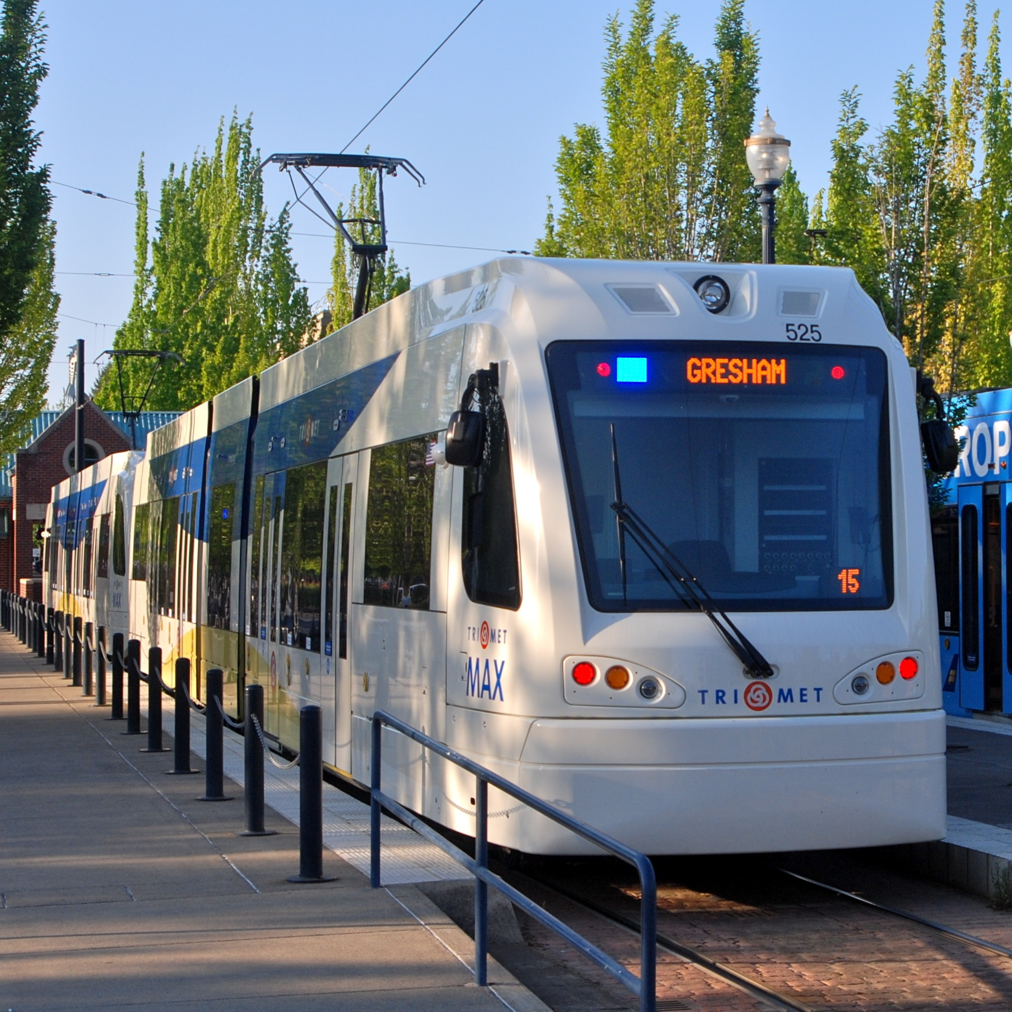 A MAX light rail train consisting of two "Type 5" LRVs (light rail vehicles), Nos. 525 and 524, laying over at Hatfield Government Center station, the west end of the Blue Line, waiting for its departure time for the next trip to Gresham. The first two Type 5 cars (523 + 524) entered service on April 27, 2015.